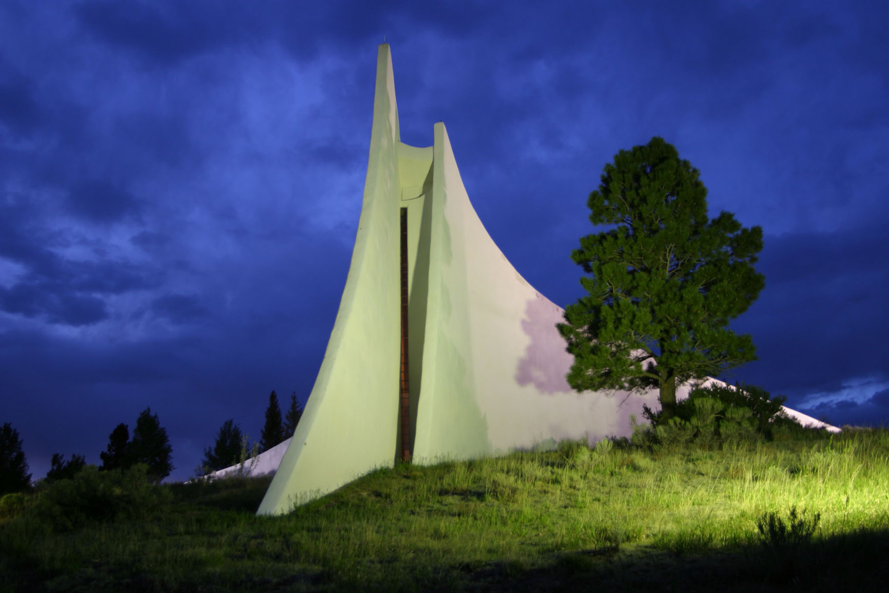 Vietnam Veterans National Memorial designated a "Monument of National Significance" by President Reagan in 1987. Dedicated May 22, 1971. Full story in Warriors Remembered.